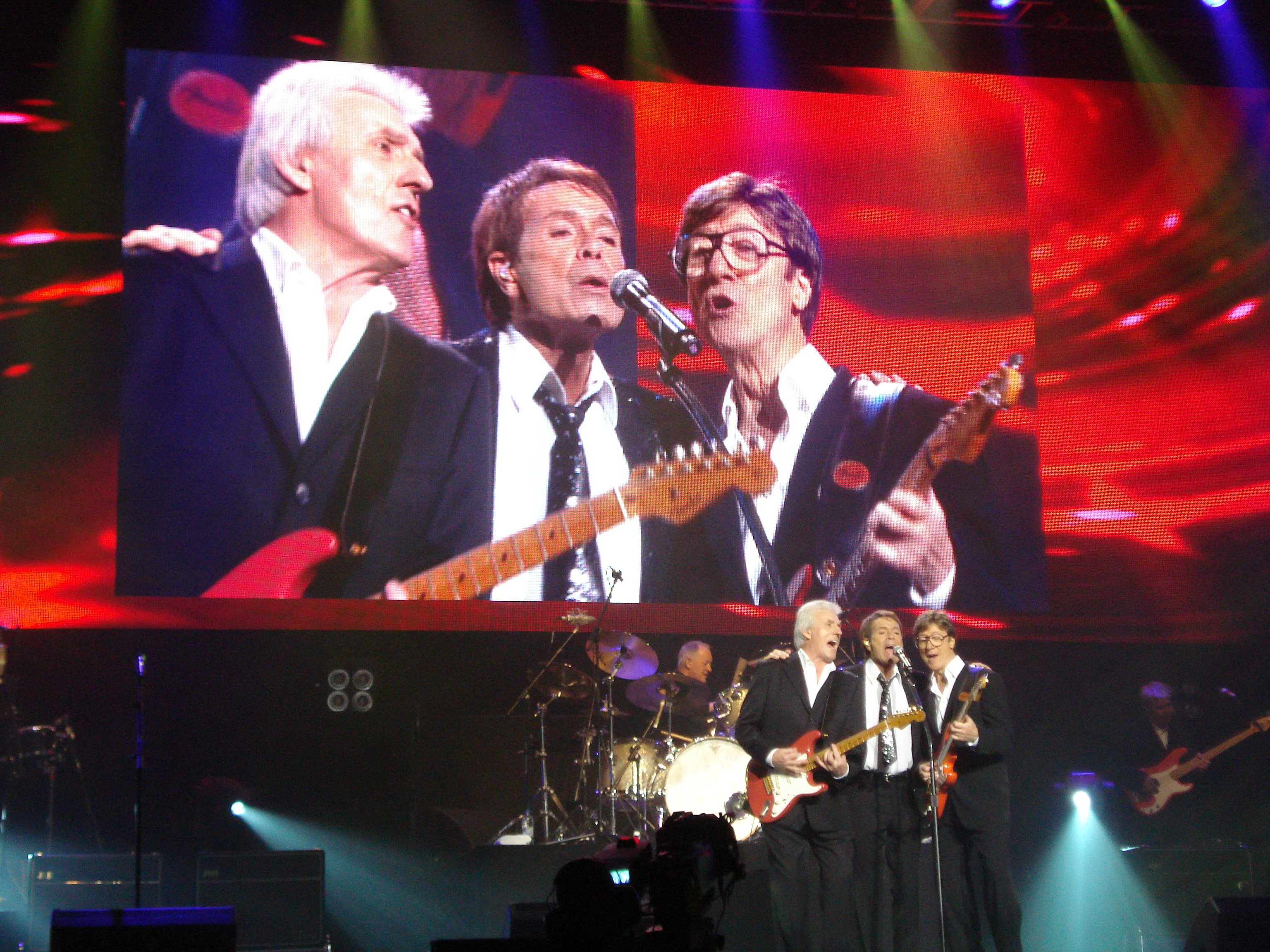 Cliff Richard and the Shadows 2009 - Brussels